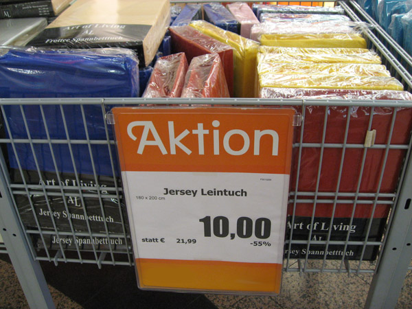 Examples for differing vocabulary in Austrian Standard German Linen or bed sheets are called "Leintuch" in Austria and not "Laken" or "Bettlaken".